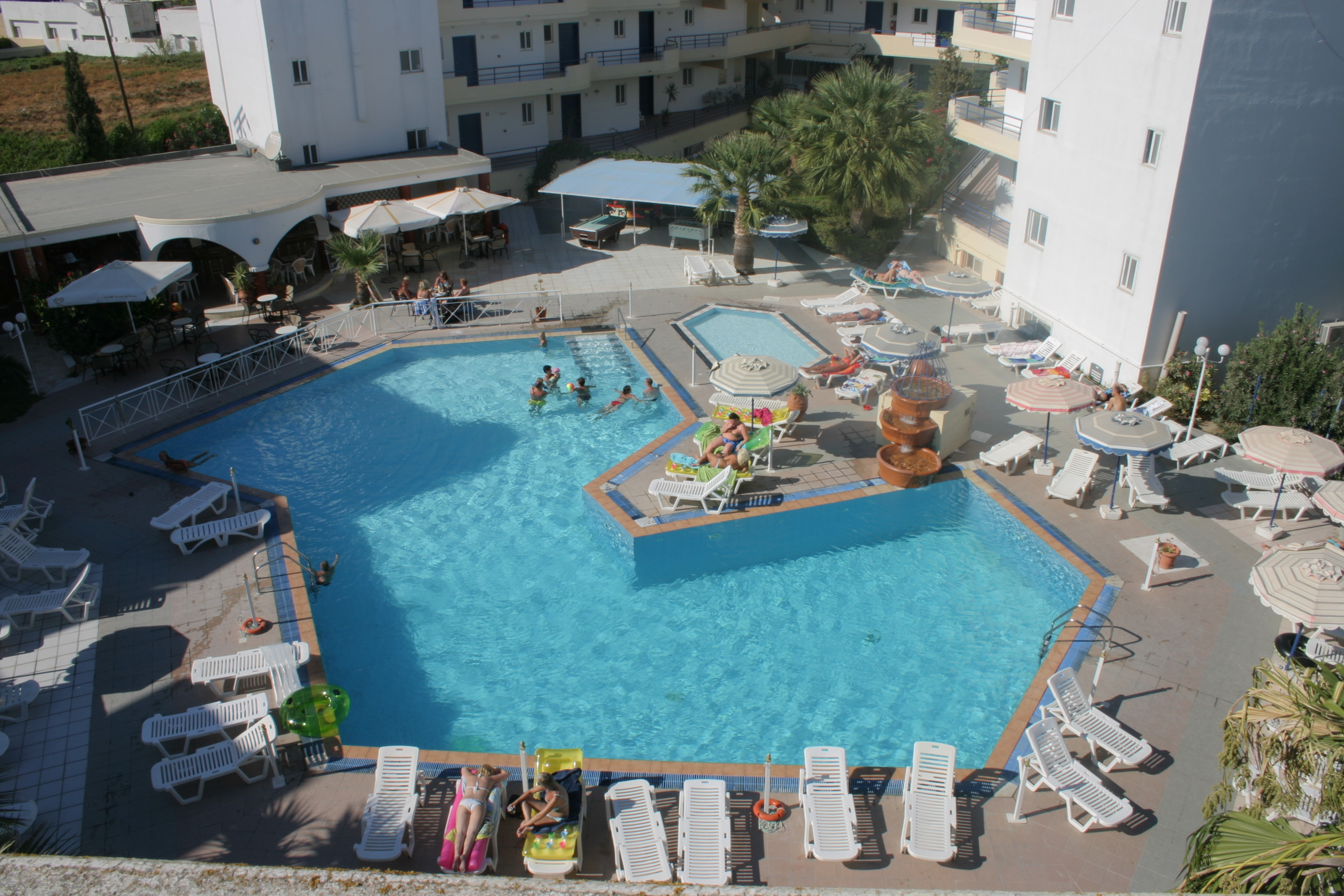 Ialyssos, Rhodes, Greece